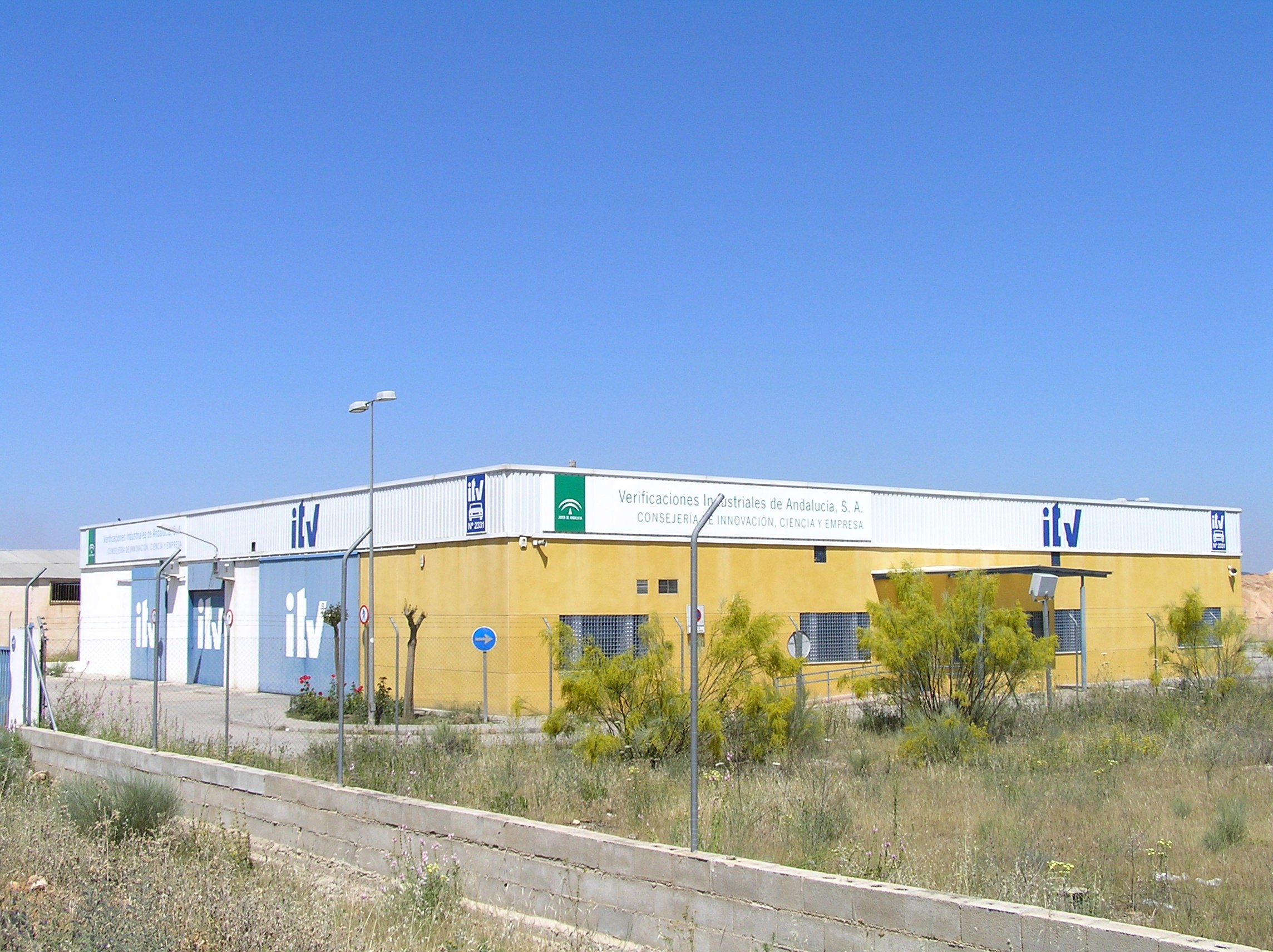 I.T.V. de Beas